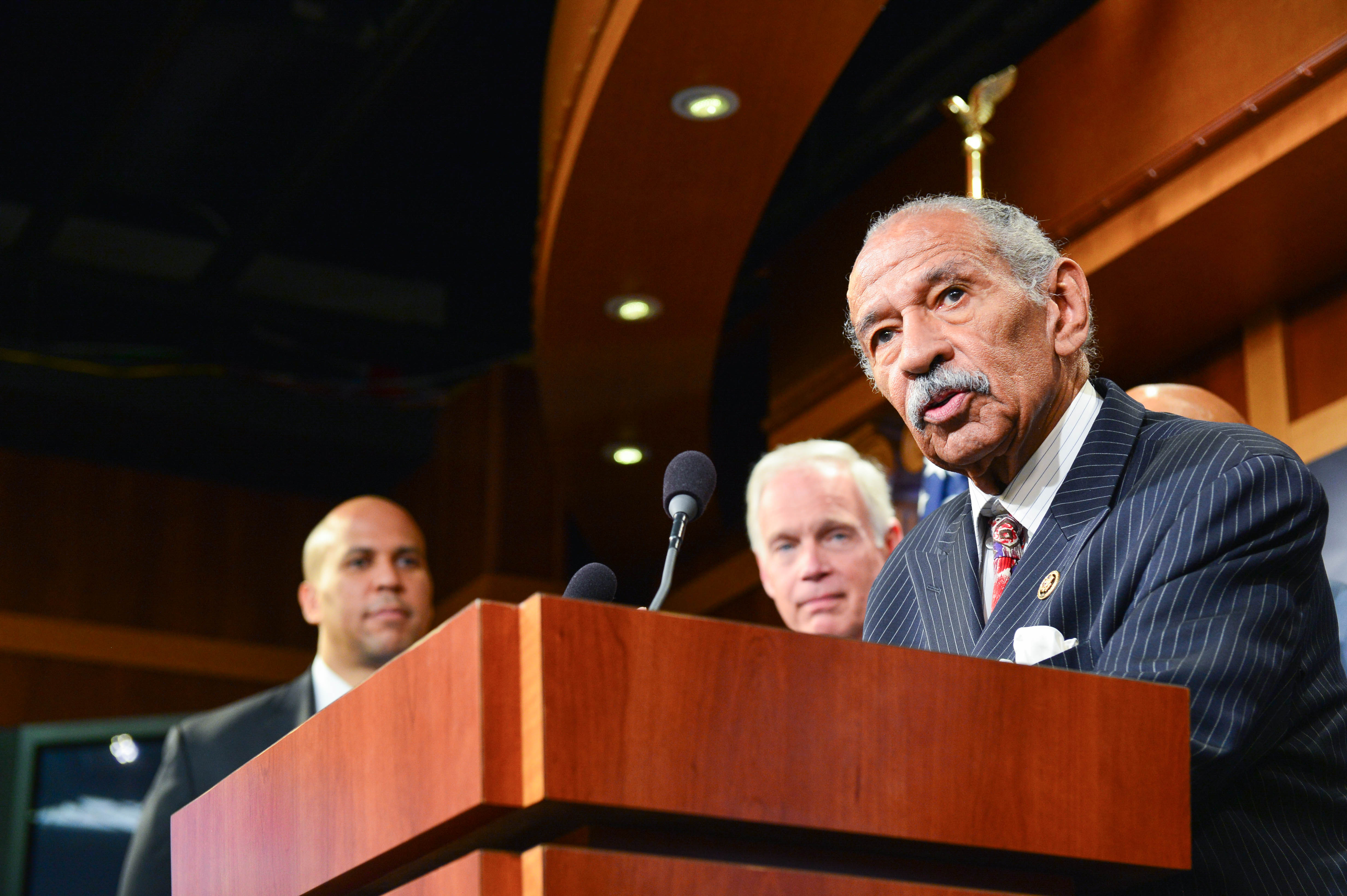 WASHINGTON, D.C. –Thursday September 10, 2015 at 12PM ET, Members of Congress led by U.S. Sen. Cory Booker (D-NJ)in the Senate and Rep. Elijah Cummings (D-MD) in the House of Representatives, will introduce the Fair Chance Act, bipartisan, bicameral legislation that gives formerly incarcerated people a fairer chance at securing employment by prohibiting federal contractors and federal agencies from asking about the criminal history of a job applicant until an applicant receives a conditional offer of employment.